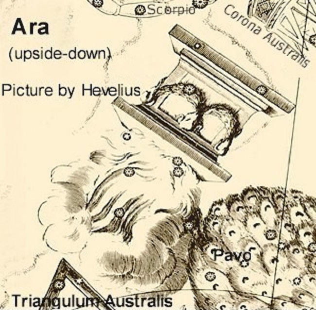 Ara Constellation by Hevelius